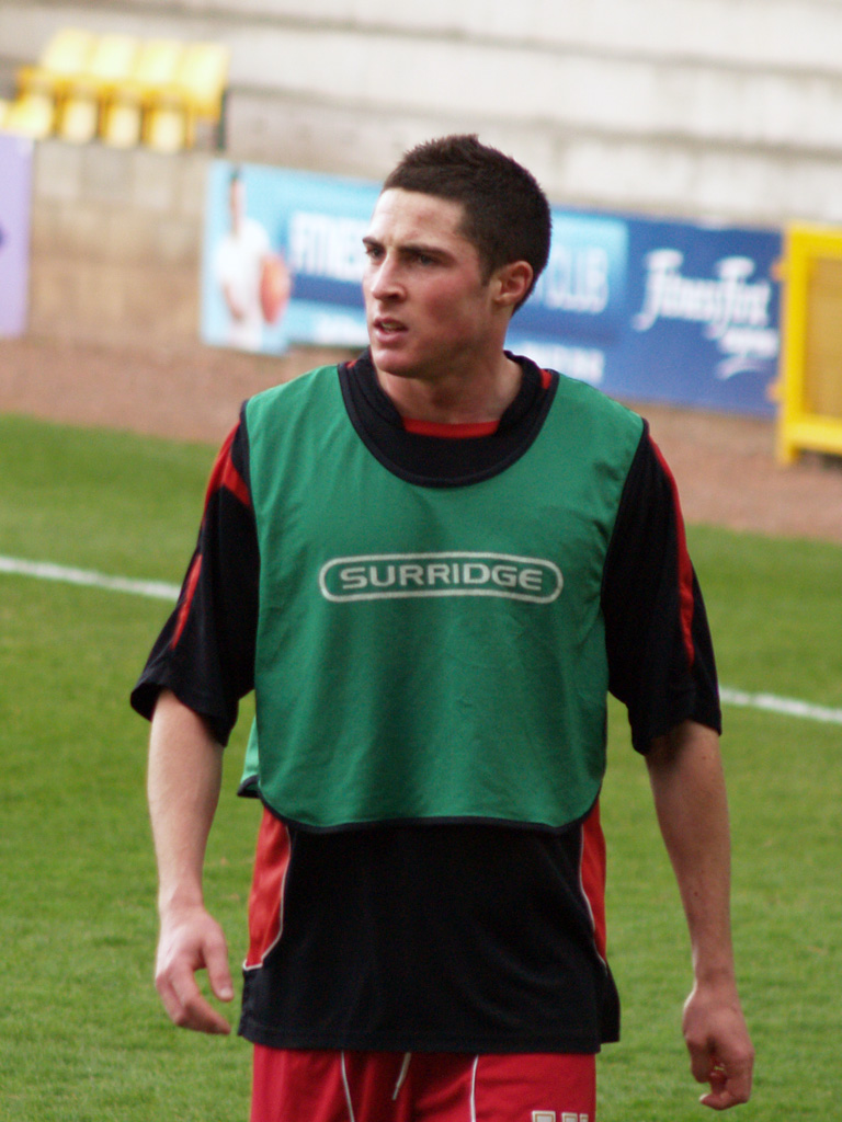 Bury FC midfielder Mike Jones during the warm up at Vale Park, home of Port Vale Football Club prior to the Port Vale vs. Bury game. Saturday 4th April 2009